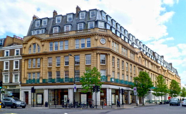 Baynards, 1 Chepstow Place, Notting Hill, London W2